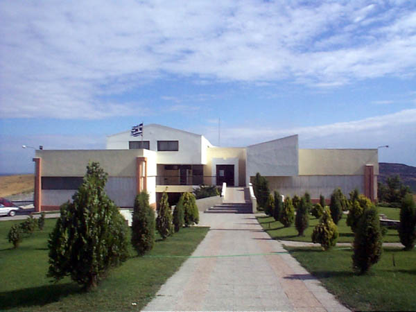 Outside view, image from the Archaeological Museum, Amphipolis, East Macedonia, Greece